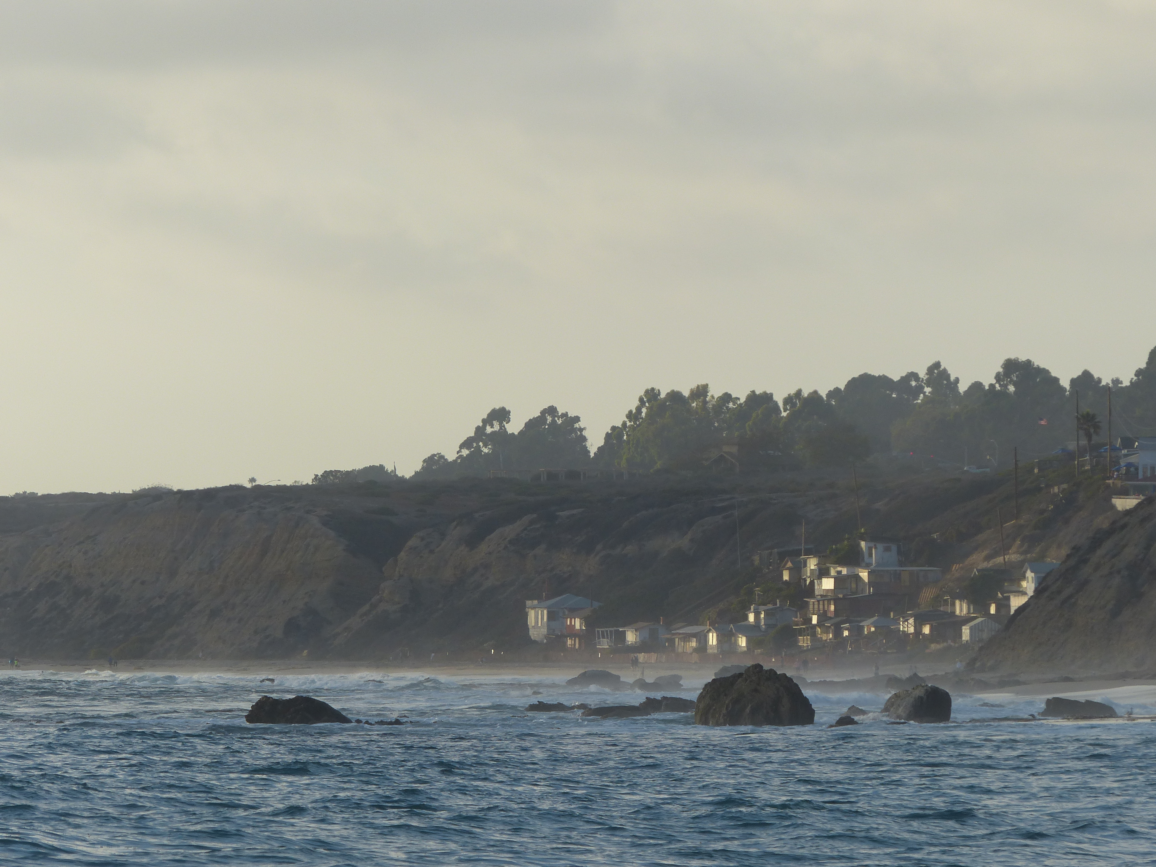 Historic wooden houses in Crystal Cove State Park